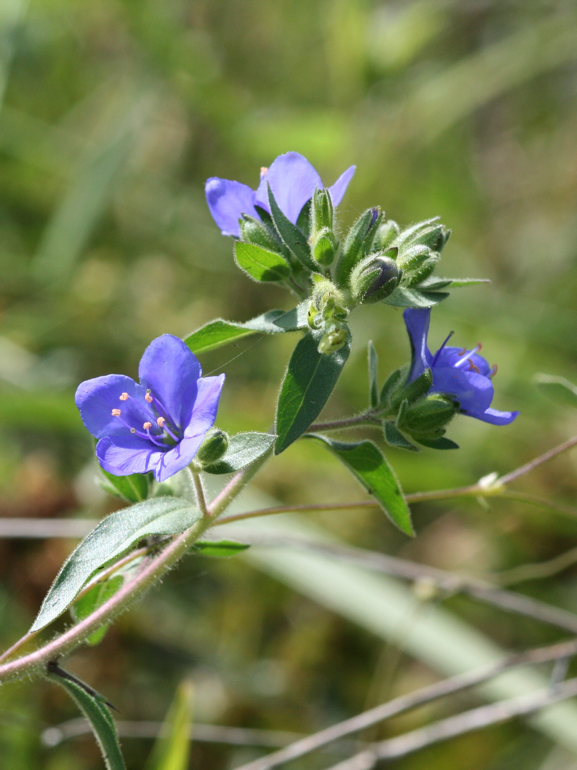 Hydrolea spinosa, Rio Ventuari, Venezuela